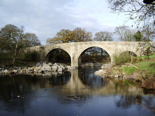 Devil's Bridge, Kirkby Lonsdale